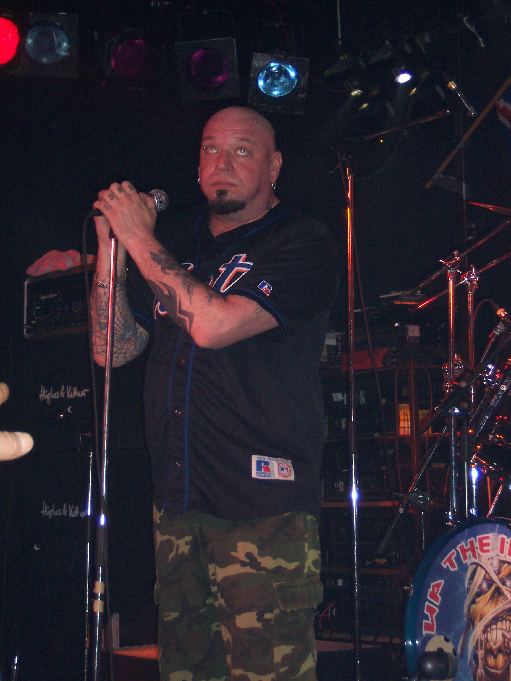 Paul Andrews (born 17 May 1958, in Chingford, Essex), better known as Paul Di'Anno, was the first prominent vocalist in the band Iron Maiden from 1978 to 1981. Performance in Verviers